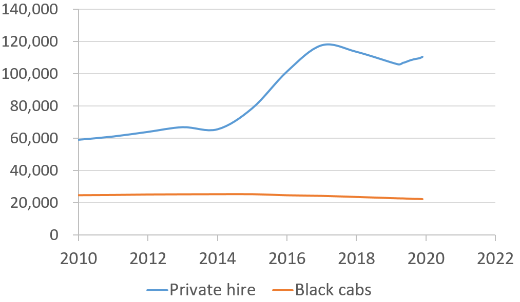 Taxis and private hire driver licences in London from 2010 to 2019[1]